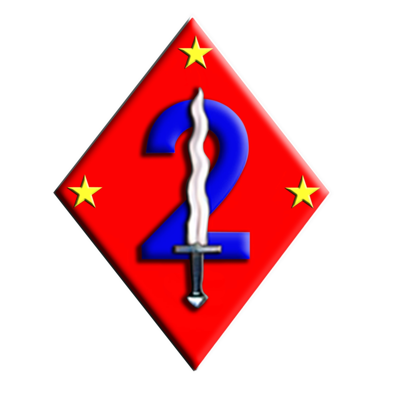 2nd Infantry "Jungle Fighter" Division